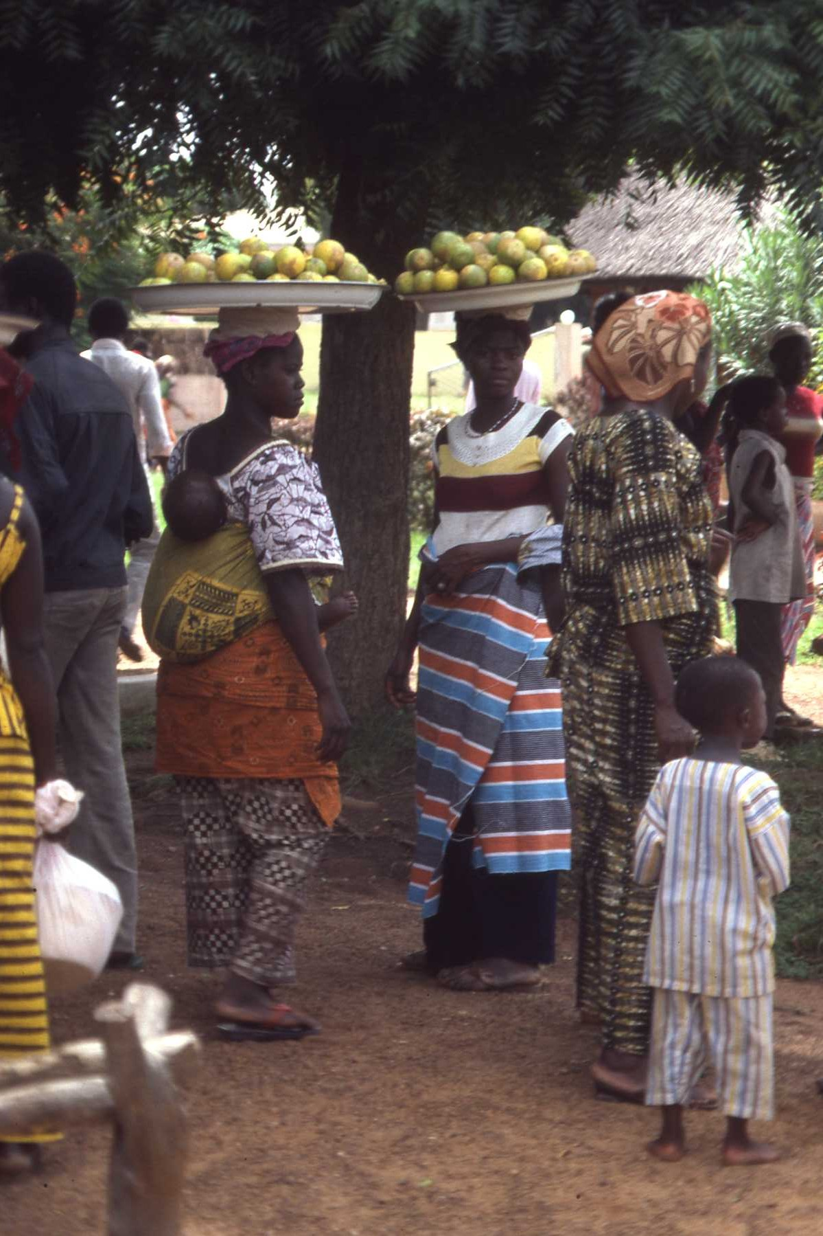 boundiali